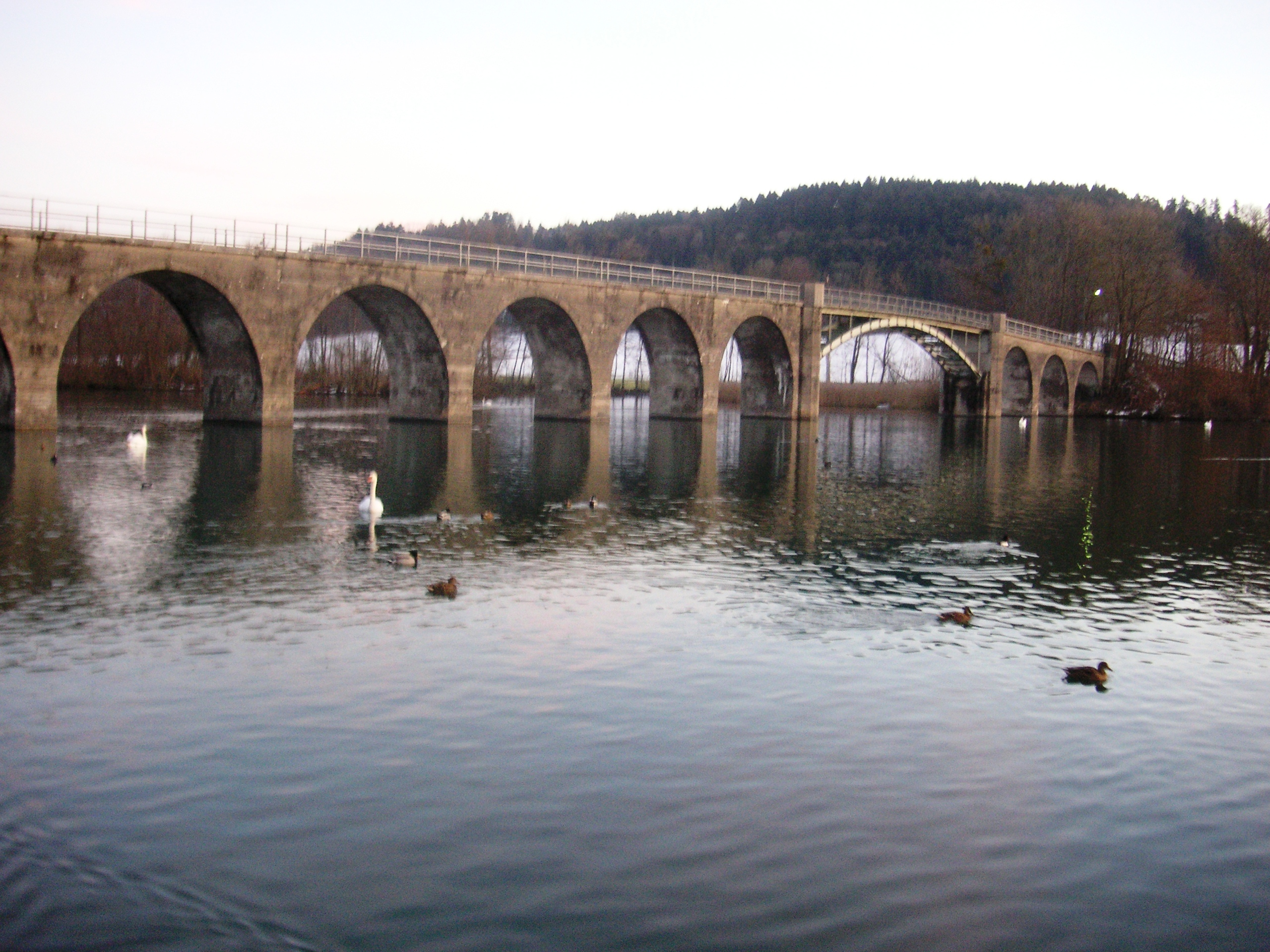 Wohleibrügg, Frauenkappelen/Wohlen bei Bern, Switzerland